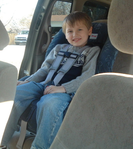 this is my son in a forward facing marathon